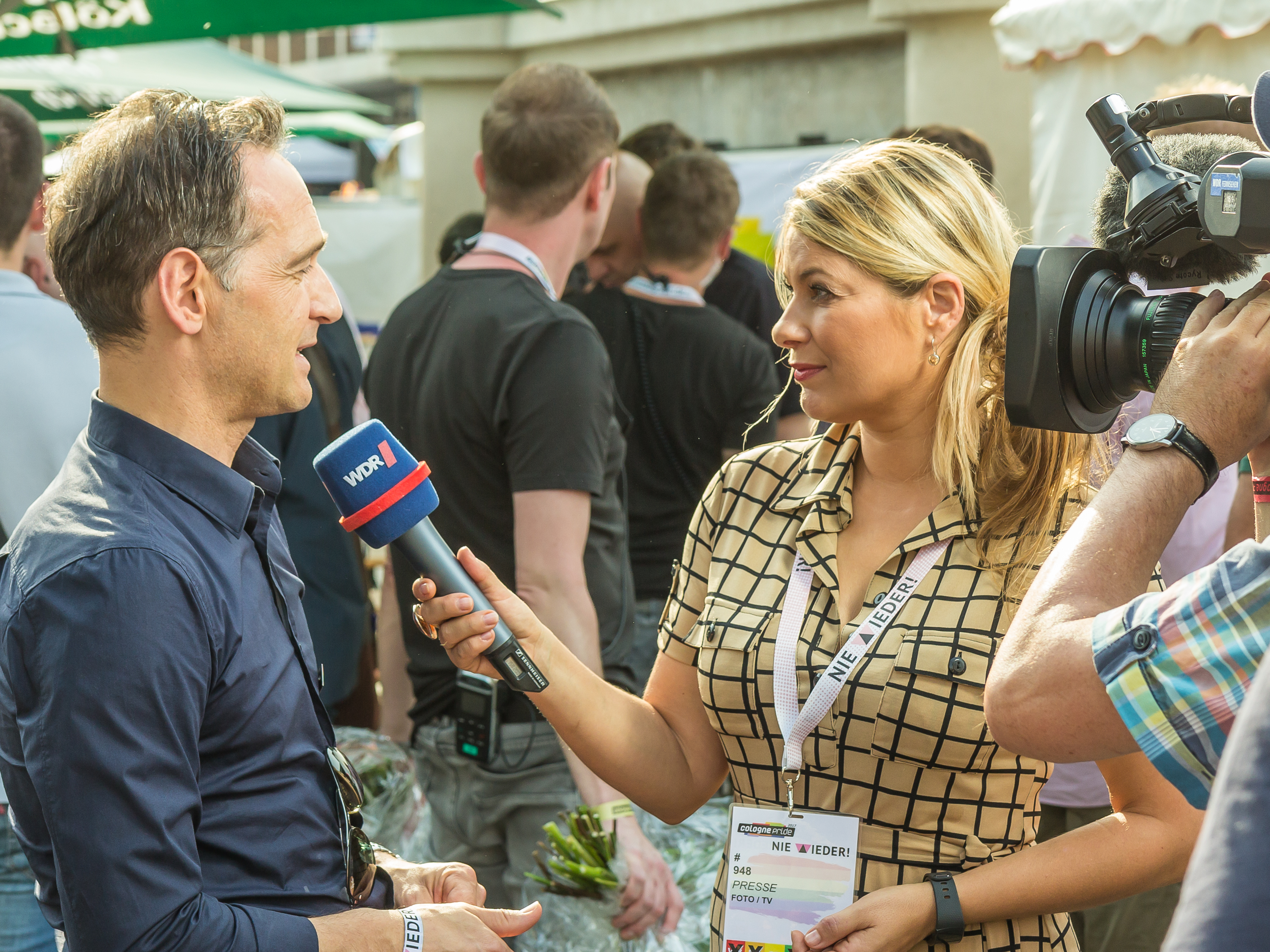 ColognePride 2017, Straßenfest - Eröffnung auf der Heumarkt-Bühne Foto: Heiko Maas, Bundesminister der Justiz, wird im Backstage von der WDR-Reporterin Manuela Klein interviewt